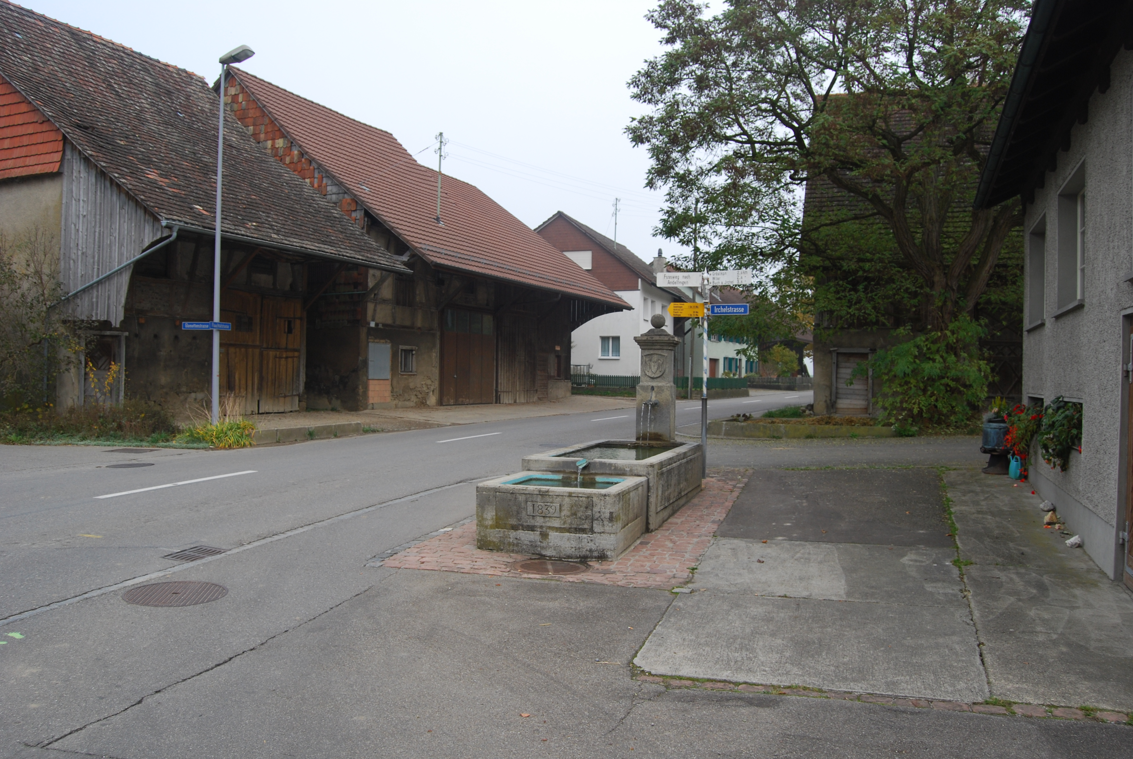 Village fountain at Volken, canton of Zürich, SwitzerlandEsperanto: Vilaĝa puto en Volken, Kantono Zuriko, Svislando